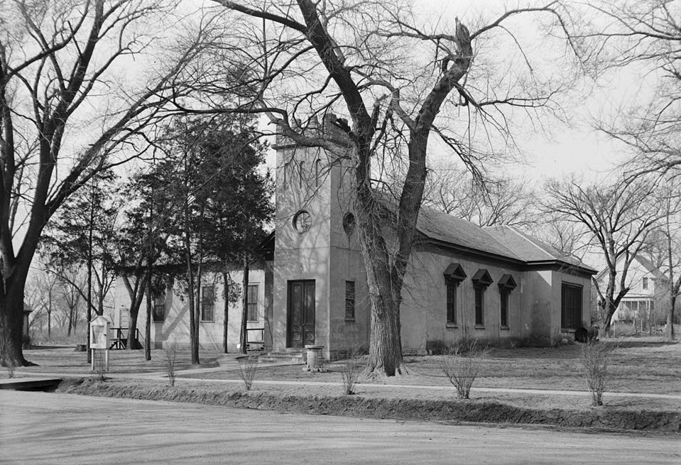 Street view of the First Presbyterian Church of Bellevue in Sarpy County, Nebraska, United States. Located at 2002 Franklin Street, the Italianate masonry church is the oldest extant Protestant church in Nebraska. Built in 1856, the bridge was added to the National Register of Historic Places on 10 June 1975.